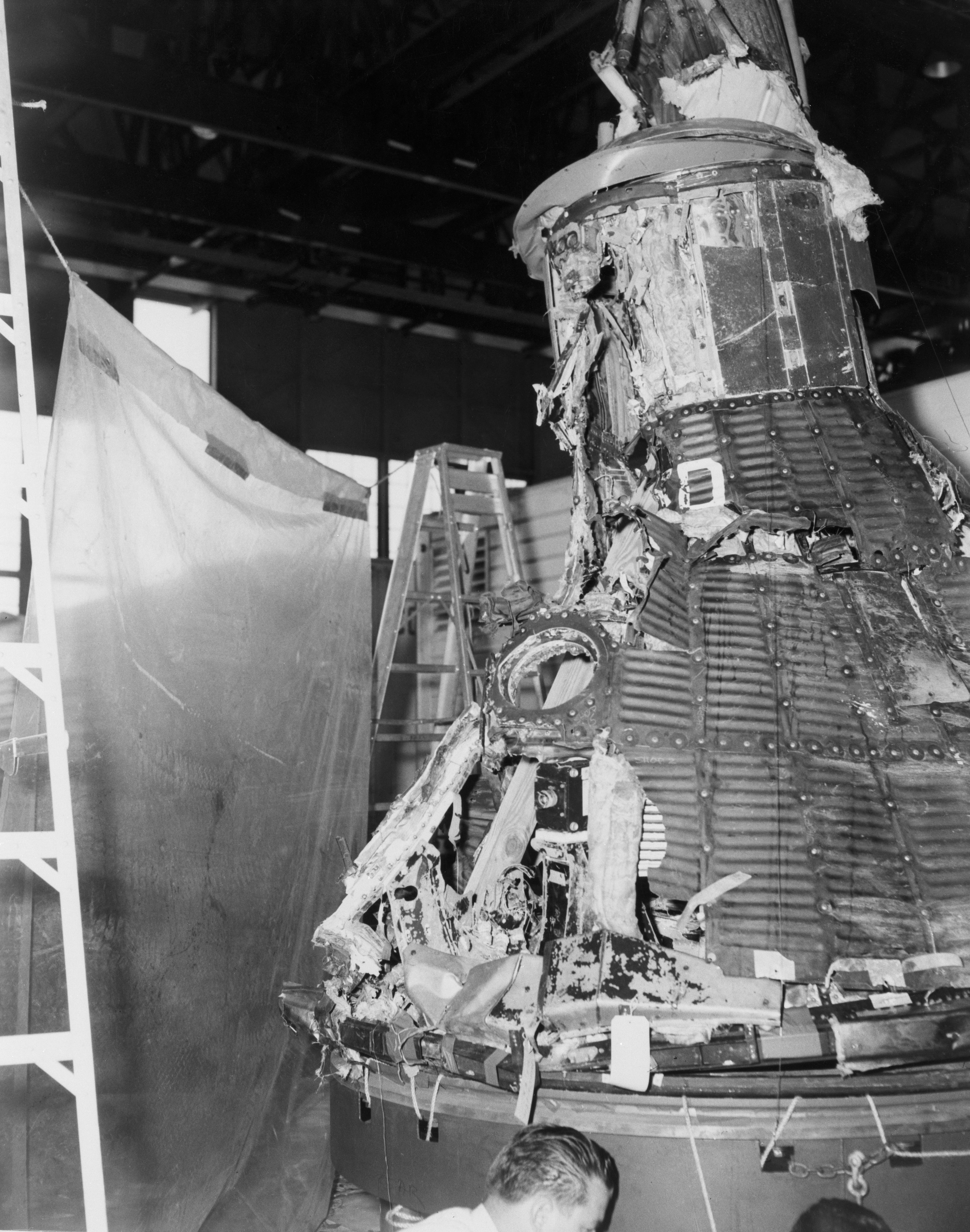 The main objectives of Mercury Atlas-1's (MA-1) were to recover the capsule and test the integrity of the Mercury capsule structure and afterbody shingles. About one minute after liftoff MA-1 exploded and the remaining debris landed 7 miles off the Florida shore. The debris was collected and engineers attempted to reassemble MA-1 to determine the cause of the explosion.